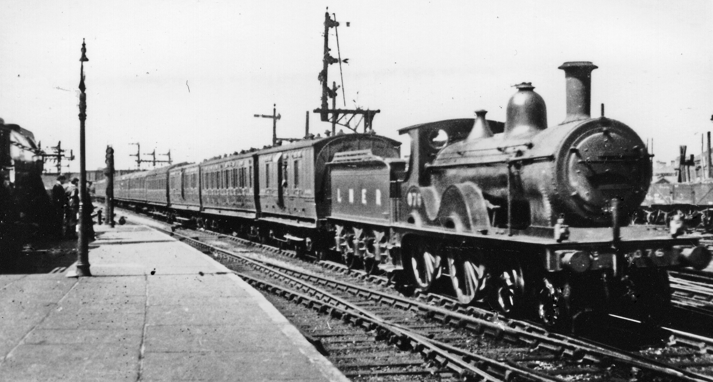 Train from King's Lynn arriving at Peterborough North, 1938. The train, having run on the ex-Midland & Great Northern line, is being worked by one of the varied ex-M&GN class C 4-4-0s taken over in 10/36 by the LNER as No. 076: of Midland (Johnson) design, it dated from 10/1899 and survived until 7/43.